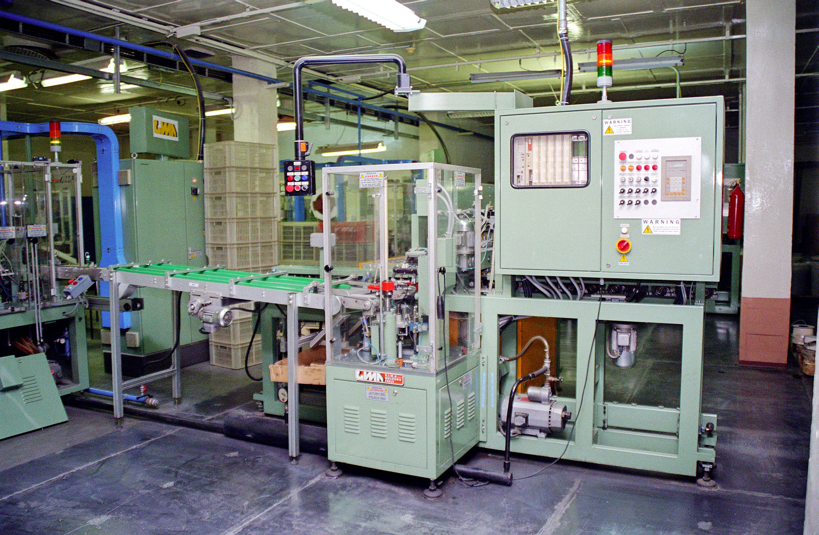 GIMA S.p.A. tape cassette equipment.